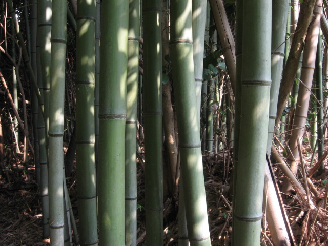 a picture of madakes.